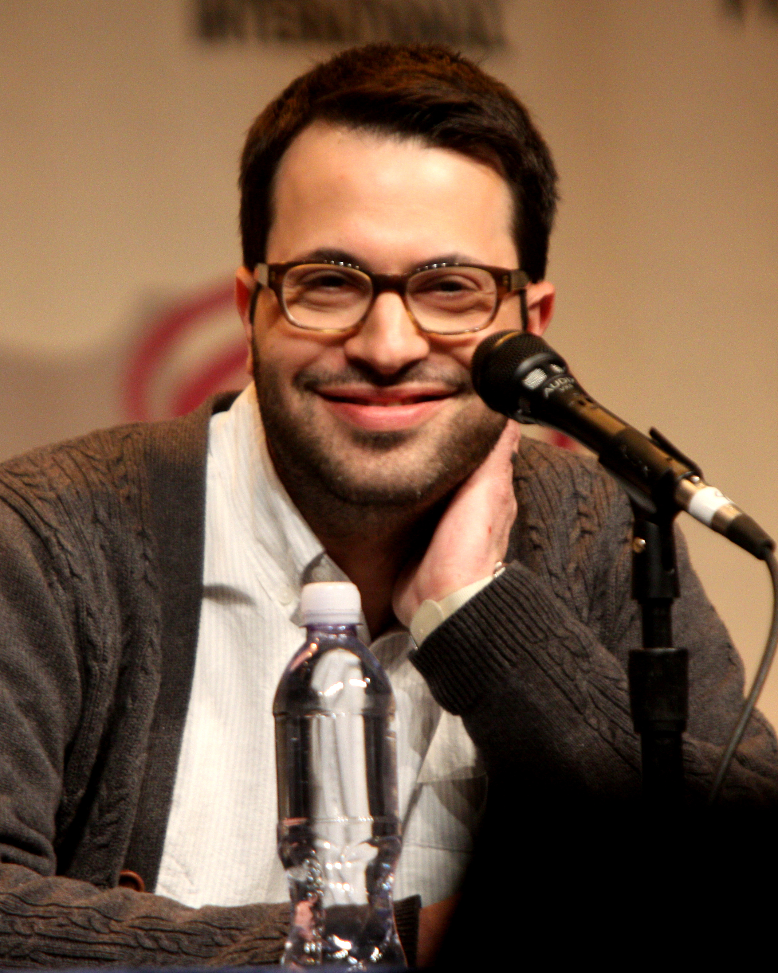 Edward Kitsis speaking at Wondercon 2012 in Anaheim, California on March 18, 2012.